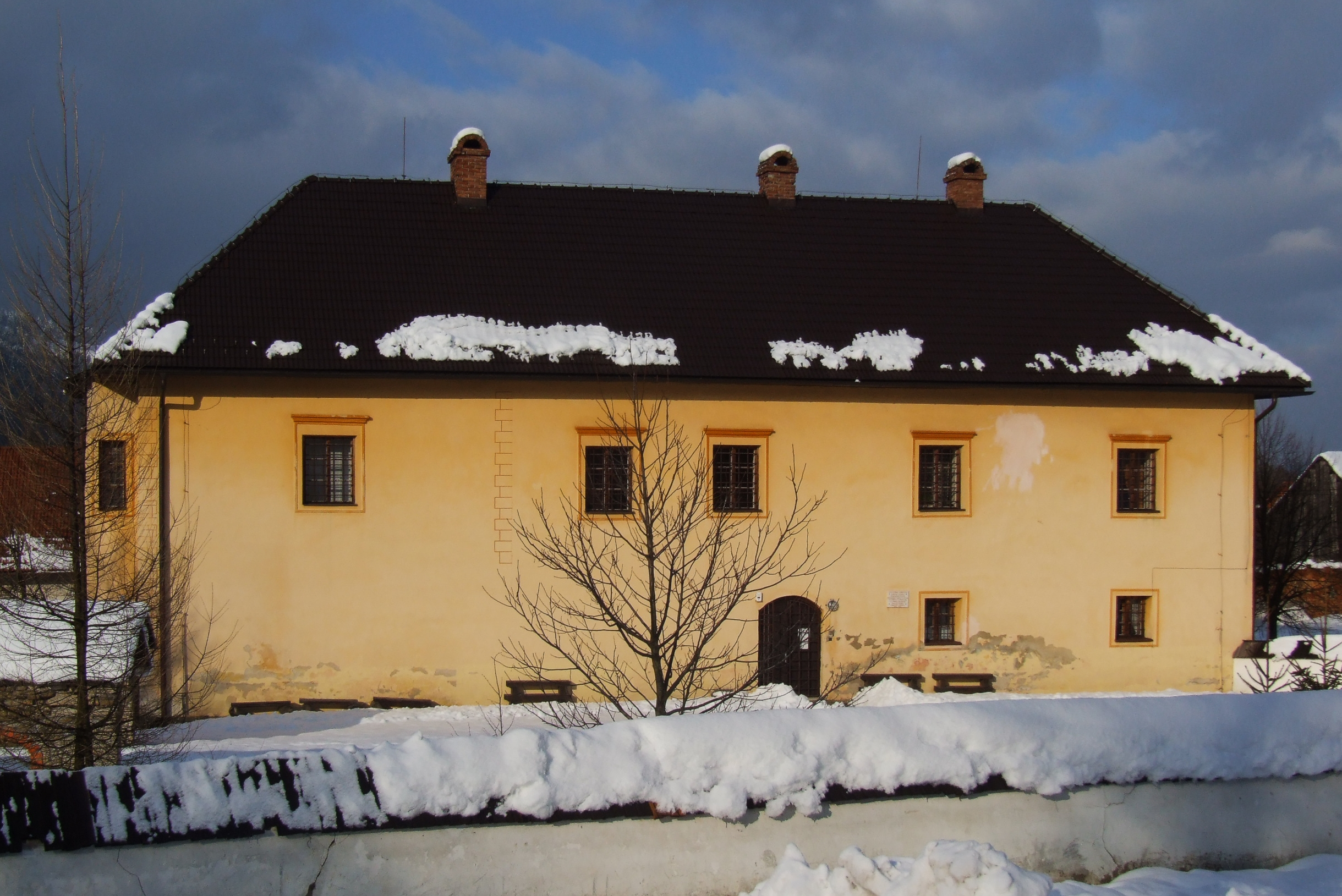 Manor house in Radoľa, Slovakia Česky: Kaštel ve vesnici Radoľa, Slovensko This medium shows the protected monument with the number 504-2981/0 in the Slovak Republic.